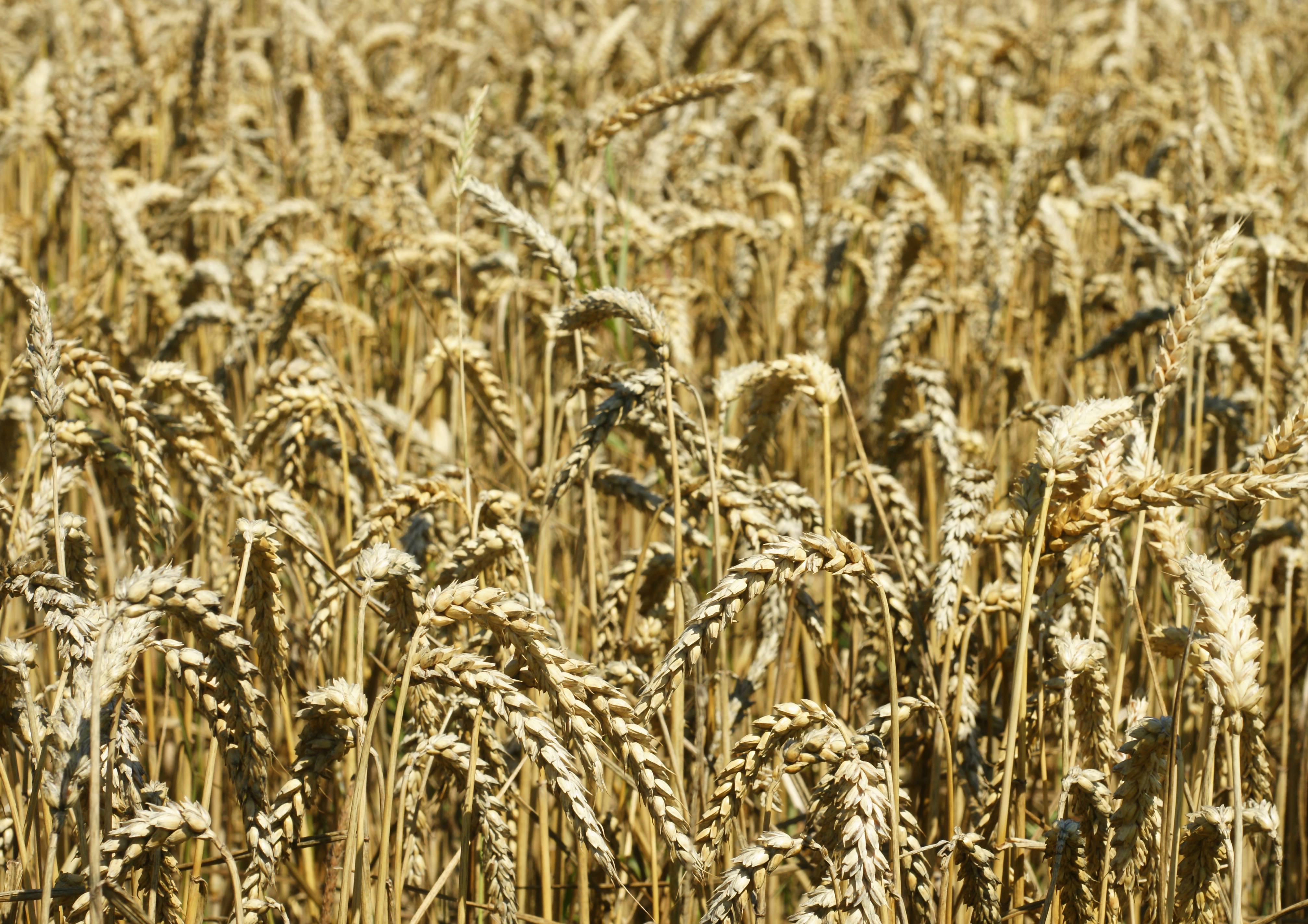 Wheat at Oostburg, Netherlands